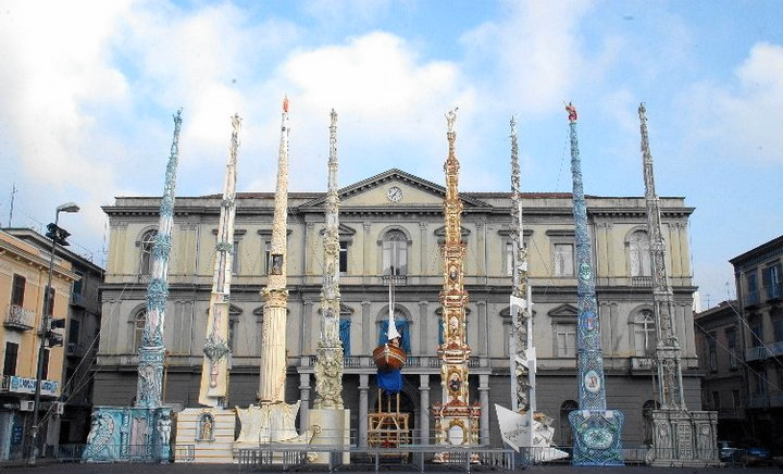 The feast of the giglio's in Nola Italy. Giglio's stationed facing Nola Duomo Church on the day after the Feast of the Gigli - Building in the foreground is Nola's City Hall